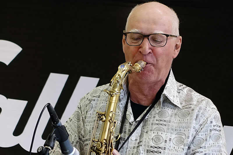 Jens Klüver at Aarhus Jazz Festival 2015